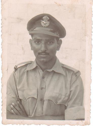 Ghulam Ahmad, RIAF